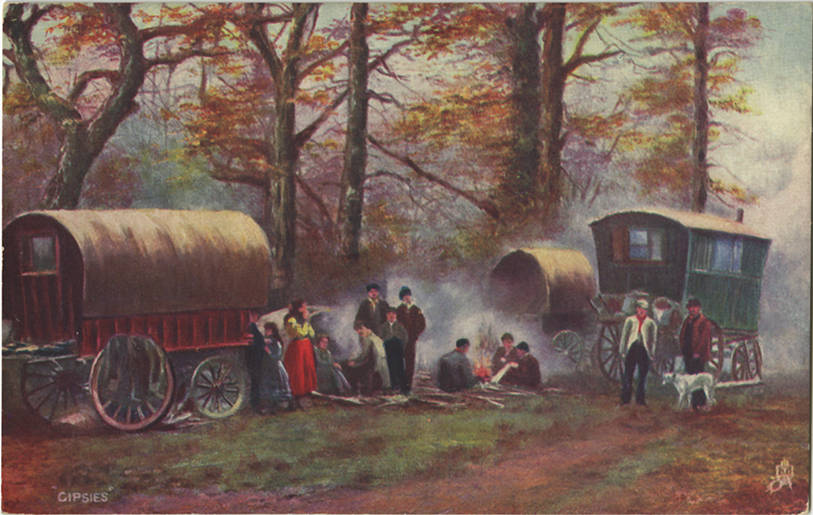 Series " Country Life " 754. Oilette postcard view of a Gypsy camp.